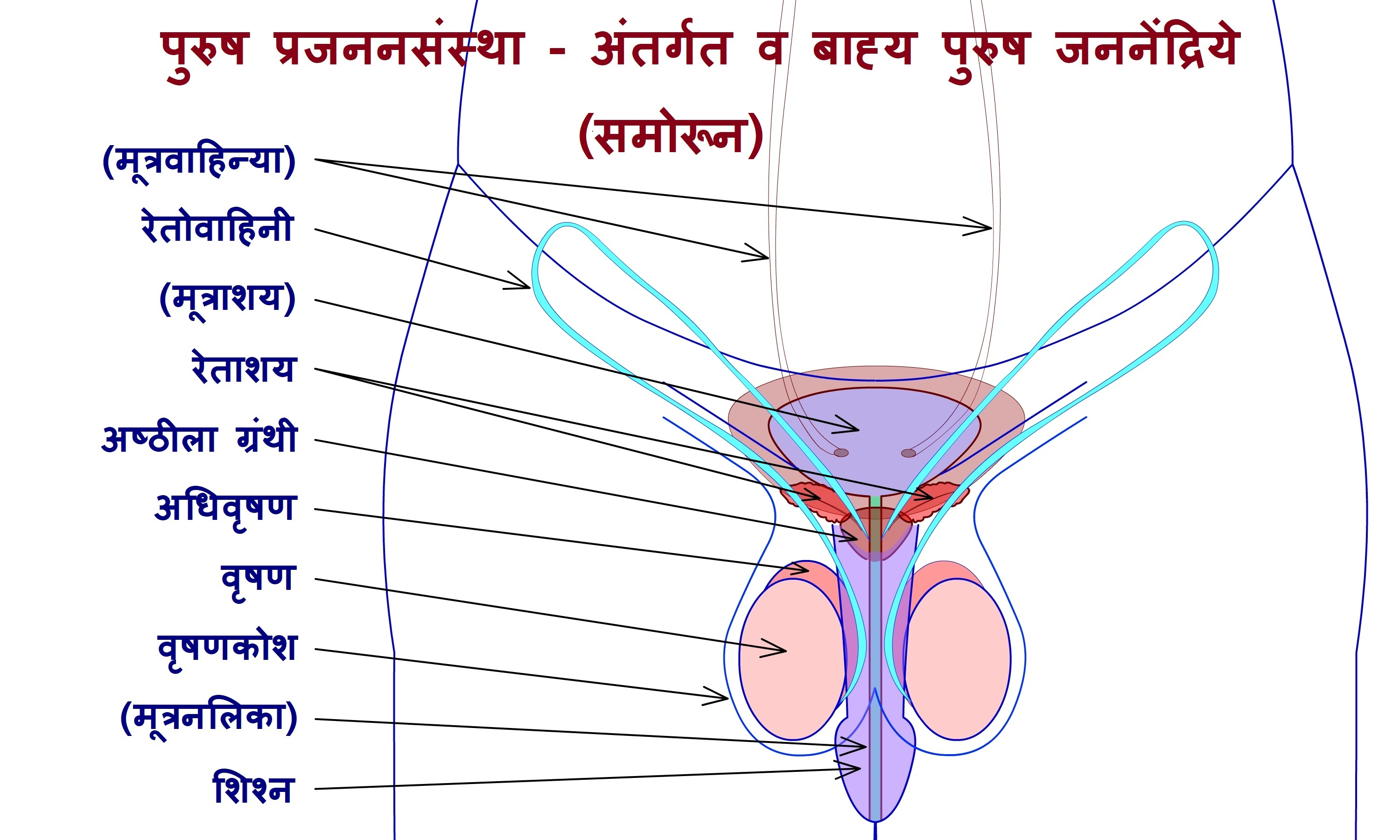 This figure shows Internal and external sex organs of Human Male Reproductive System in front view.